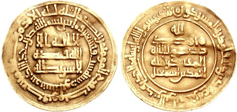 Coin of Ahmad Samani, an Samanid Emir.